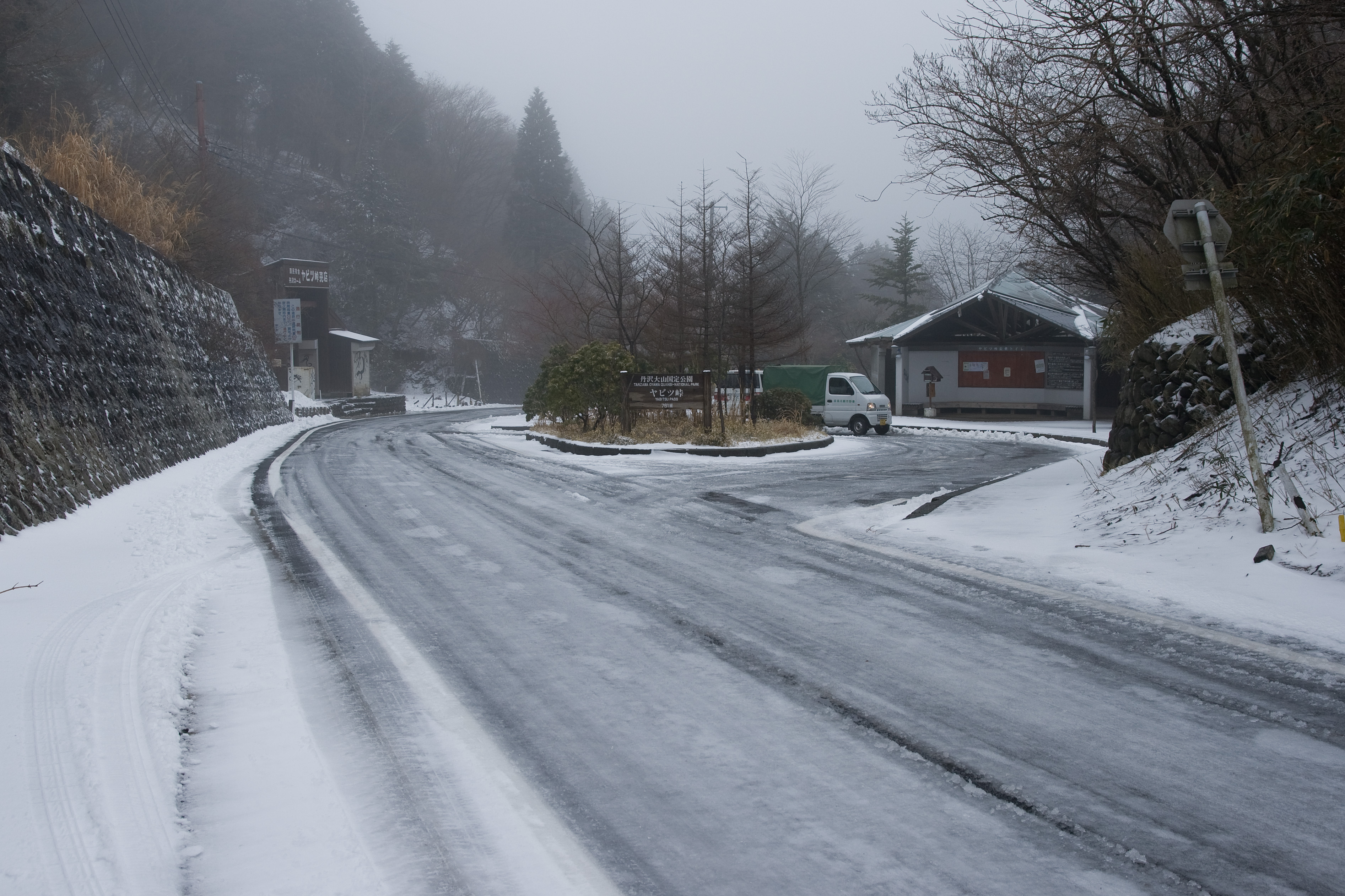 Yabitsu-pass (Yabitsu-tōge ヤビツ峠) in Mts. Tanzawa, Kanagawa Pref., Japan.